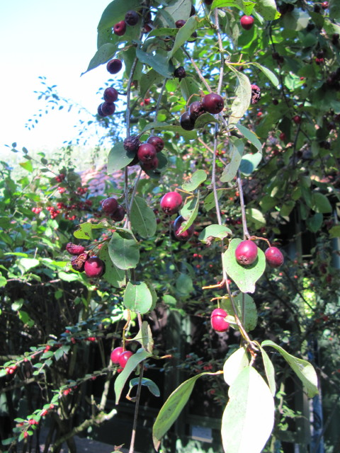 Aronia berries, purple